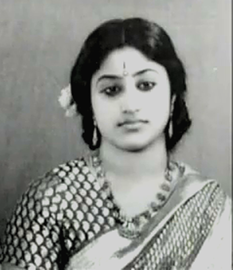 The photo of Ammachi Panapillai Amma Shrimathi Radhadevi Pandalai, the consort of H.H. Sree Uthradom Thirunal of Travancore Royal Family.